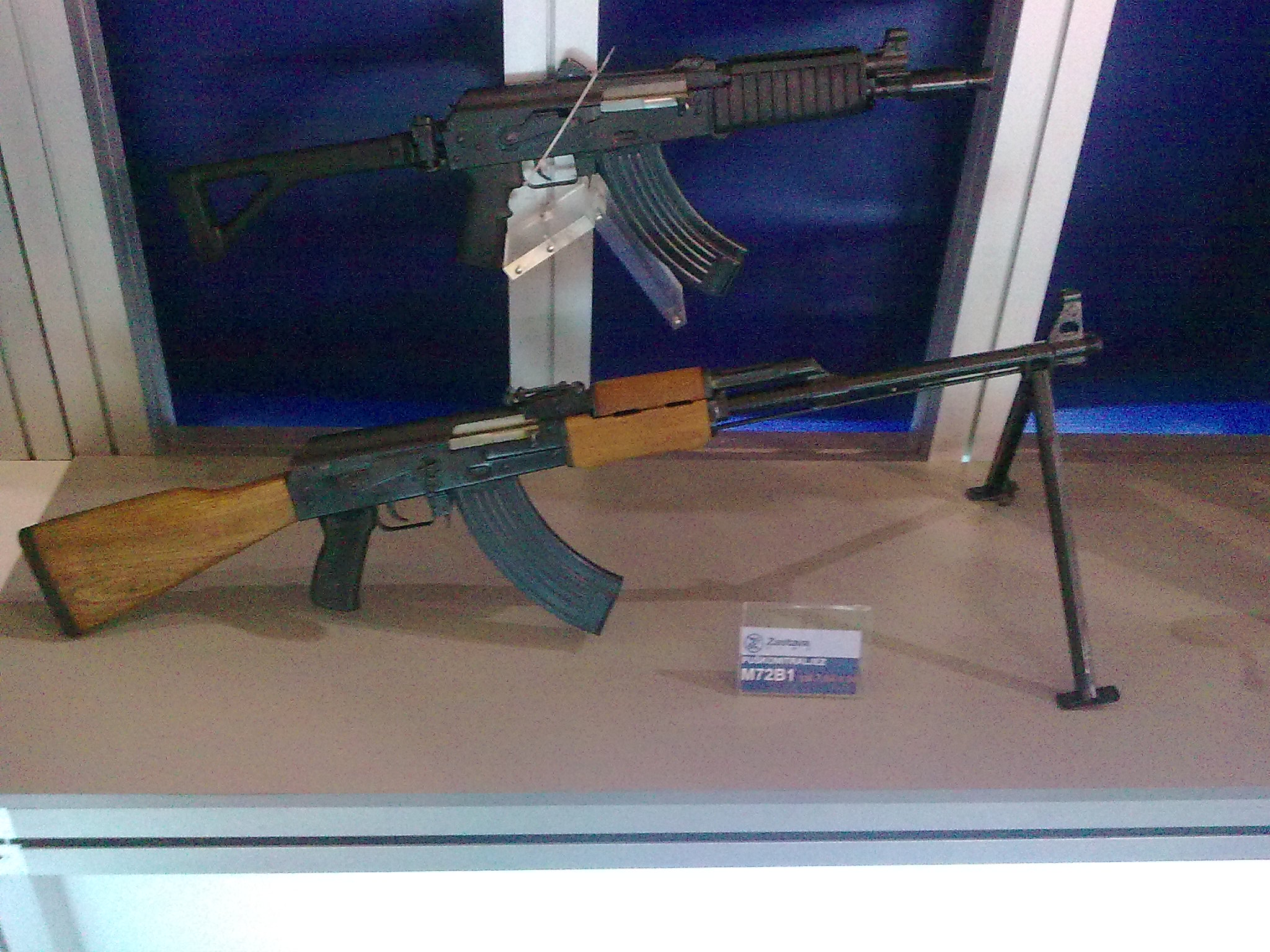 M72B und M21A of Zavasta